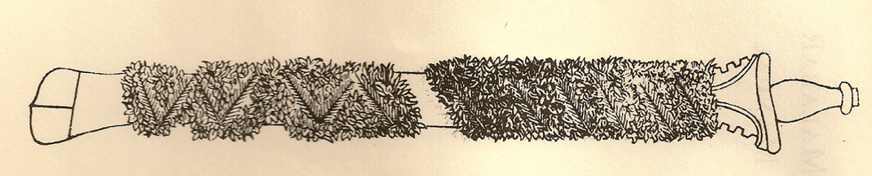 Chera King's Sword given to the Zamorin of Calicut, engraved from an original sketch